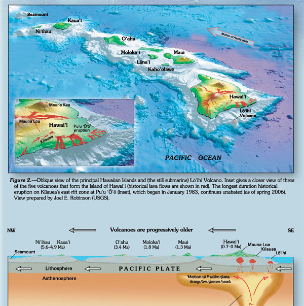 A poster of the Hawaii hotspot